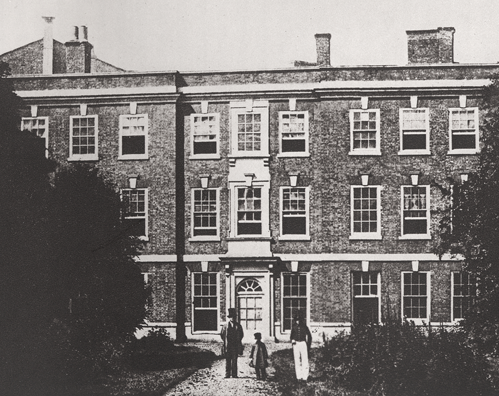 Riverside frontage of Exeter House, Derby, photographed before its demolition in 1854.